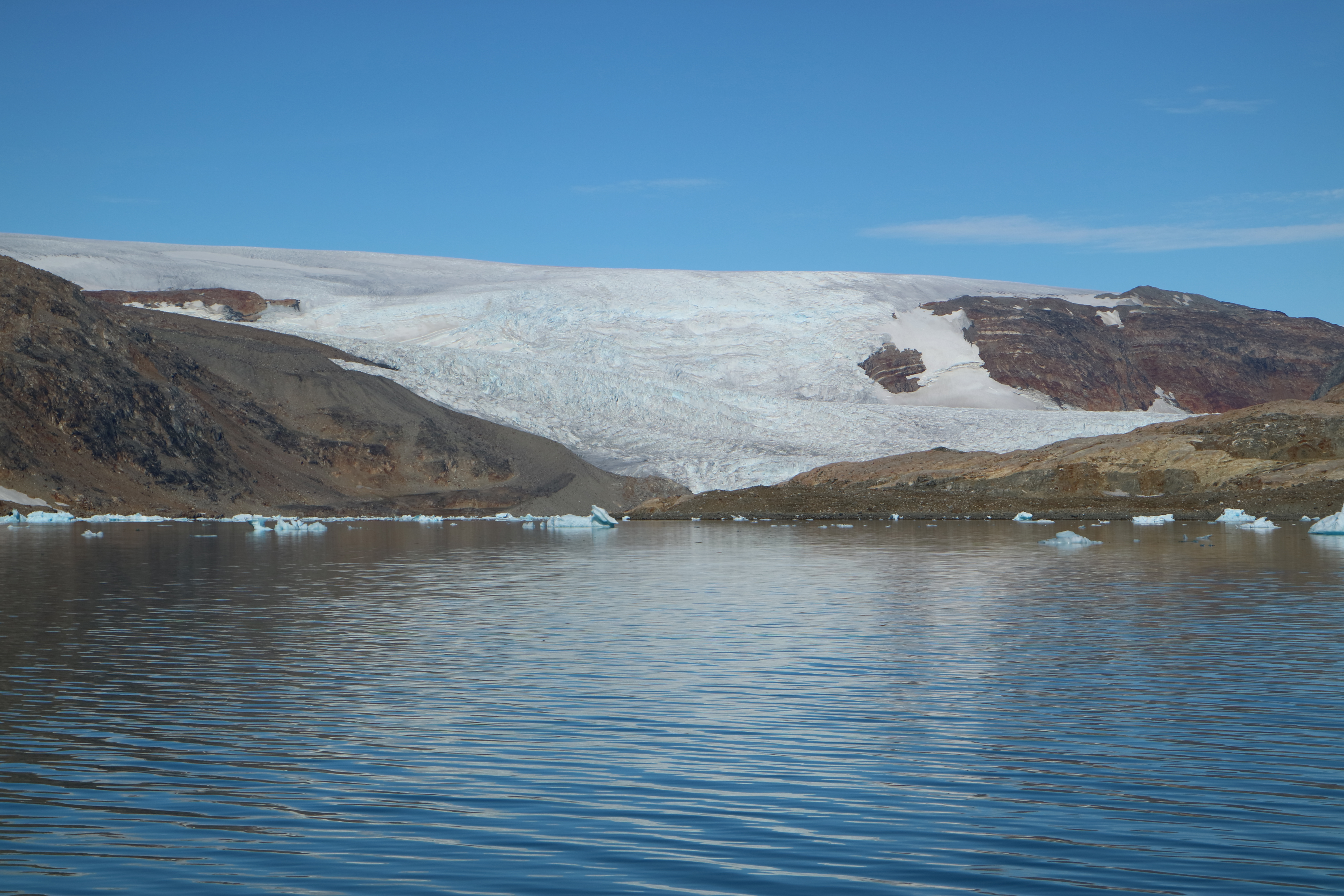 Brückner Glacier at Qeertartivatsaap Kangertiva (Johan Petersens Fjord), South East Greenland